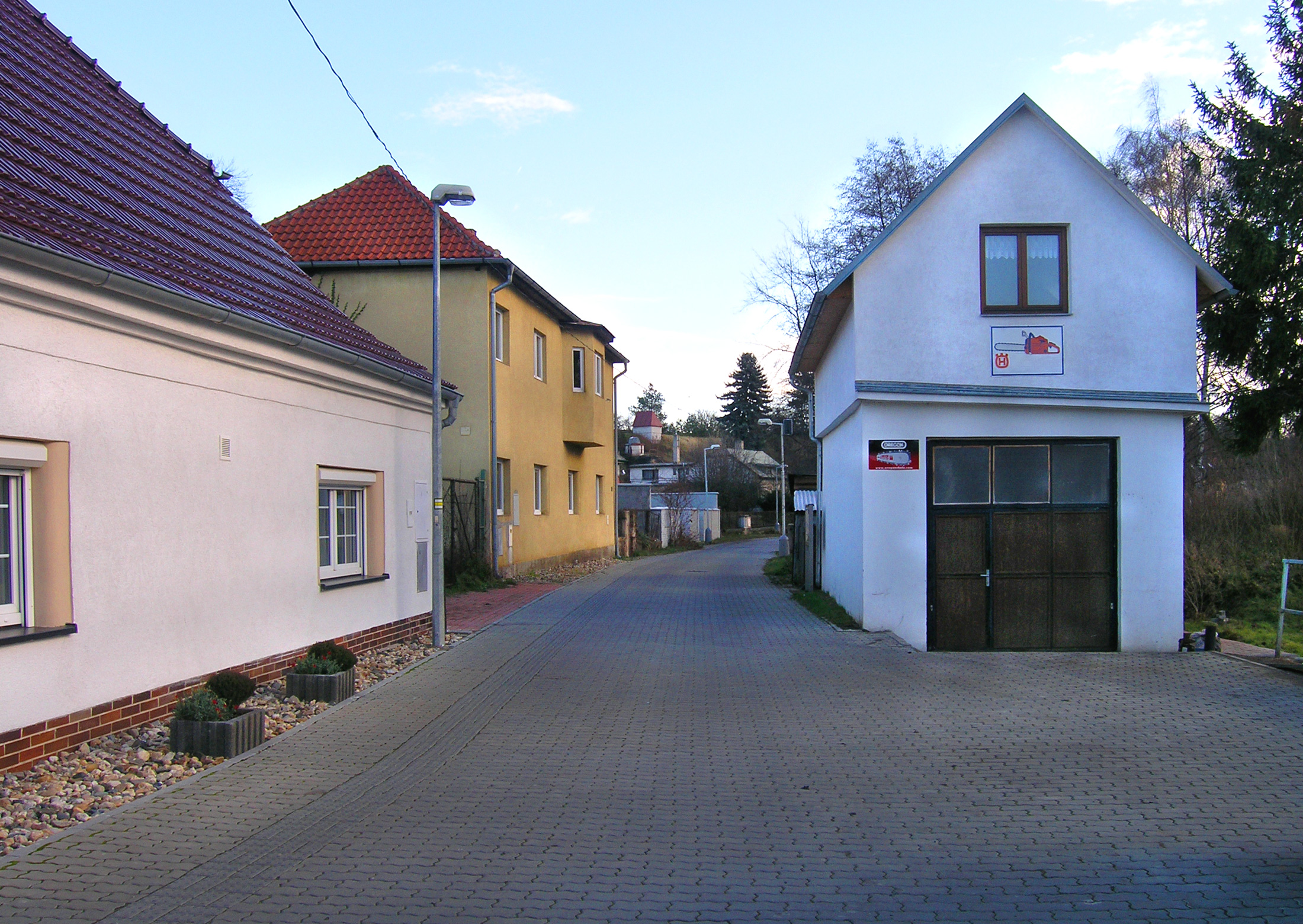 V Podskalí street in Vinoř, Prague